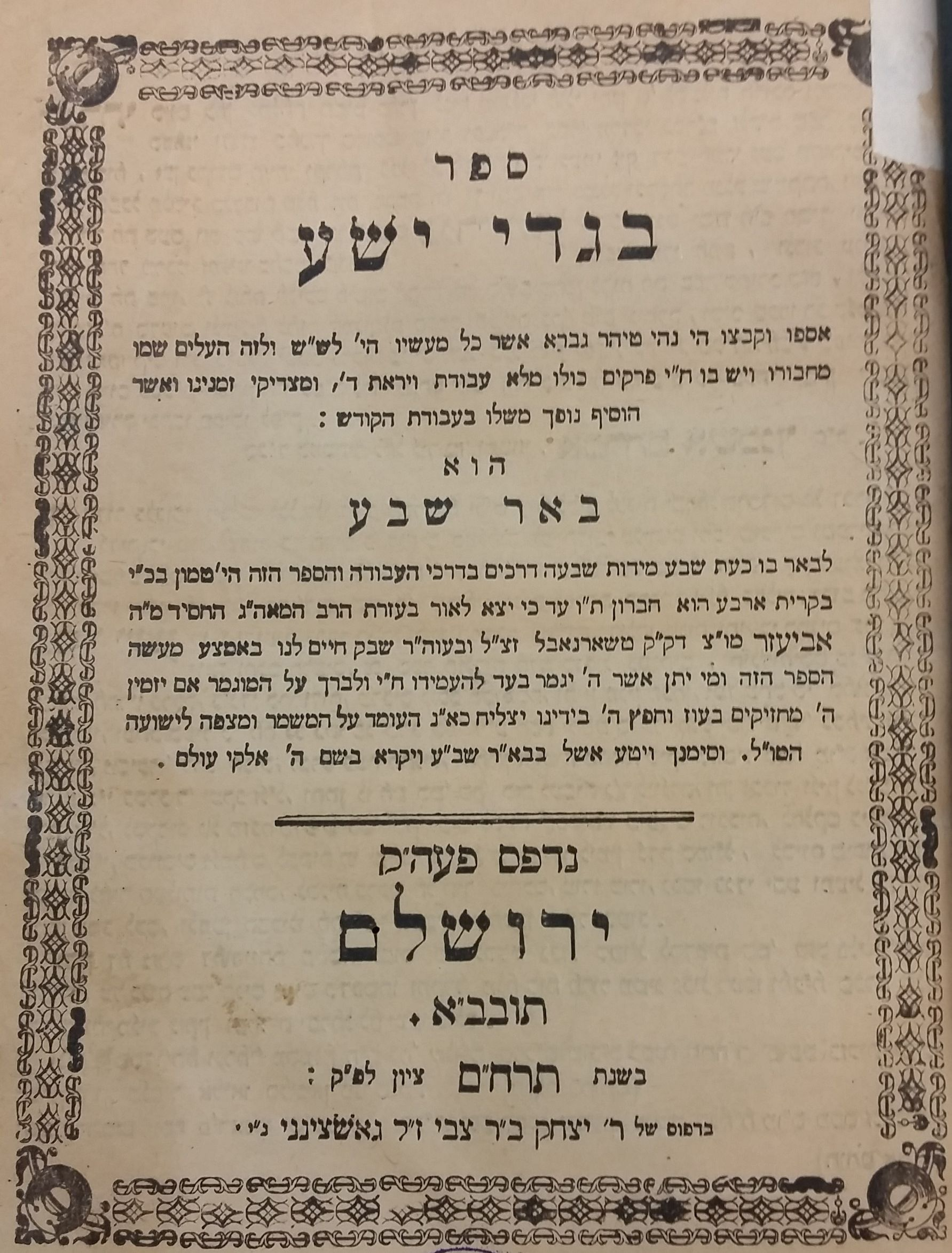 Title page of Bigdei Yesha, published by Gushtziny in 1888.